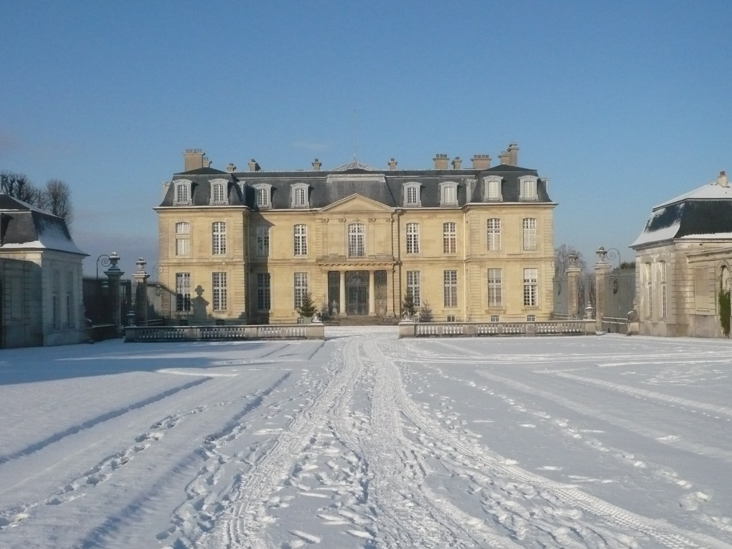 Castle of Champs-sur-Marne after the snow